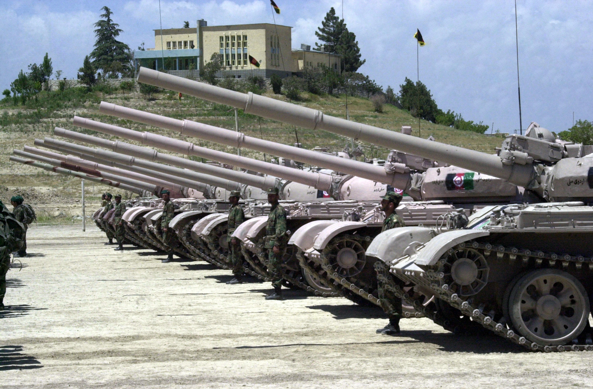 Soldiers assigned to the 1st Afghanistan National Army (ANA) Armored Battalion, stand in formation with 7 of their T-62 Main Battle Tanks and 2 of thier T-62M MBTs during their graduation ceremony held at Polycharky (probably Pul-e-Charkhi), Afghanistan.